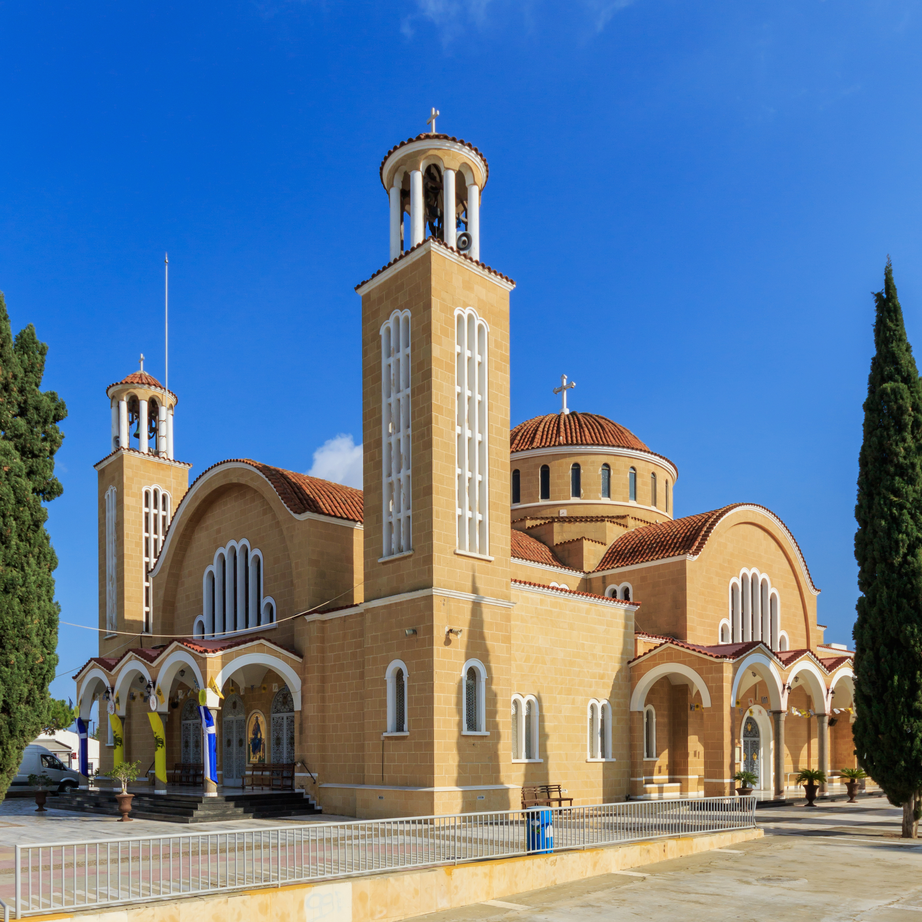 St. George Metropolitan Church in Paralimni, Cyprus